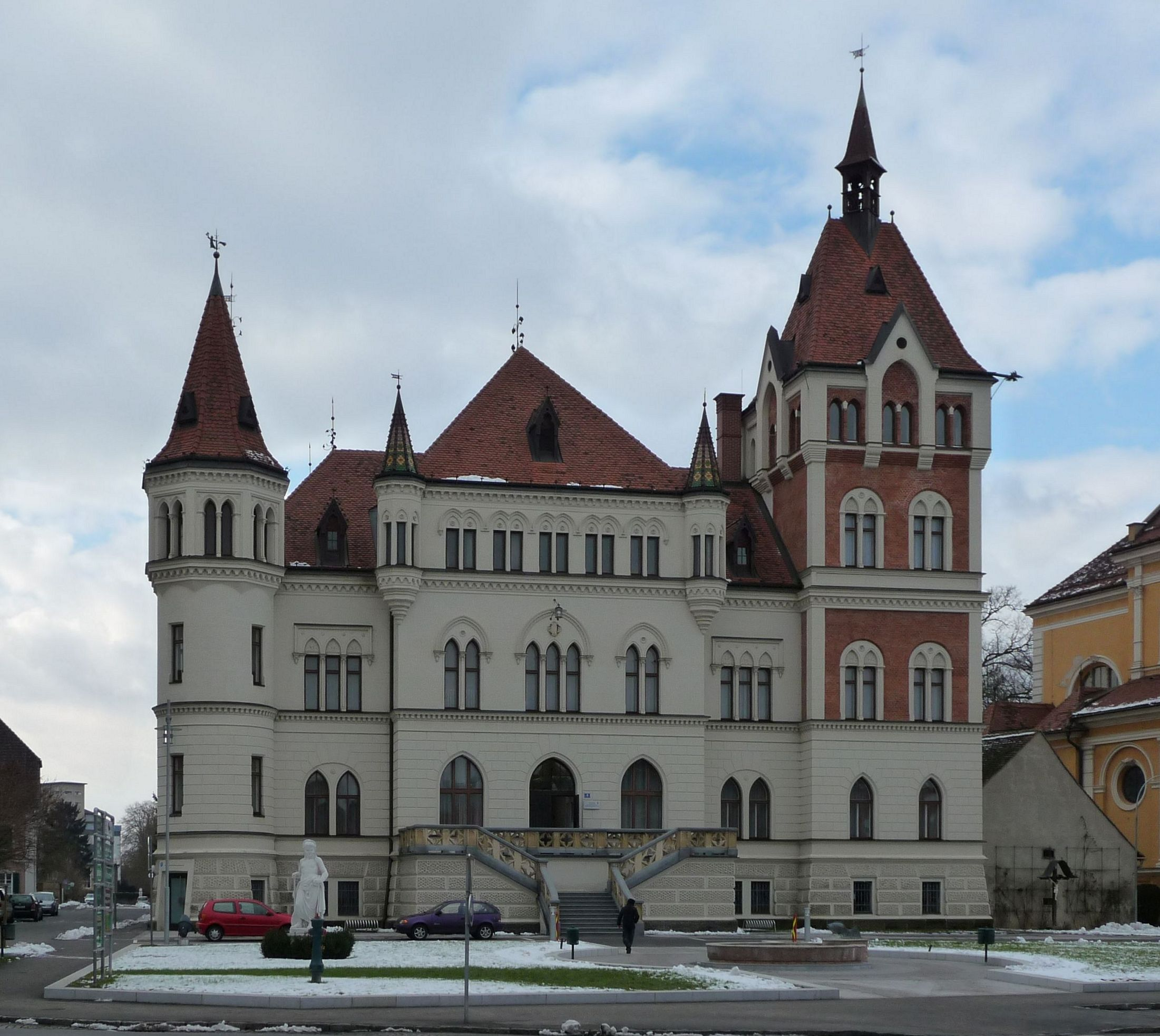 Villa Hold in the City of Feldbach, Styria